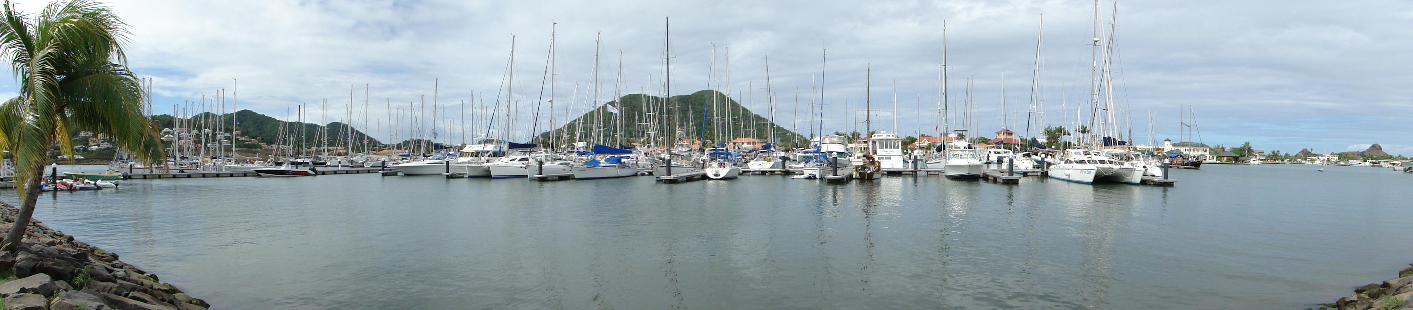 Rodney Bay Marina, St Lucia